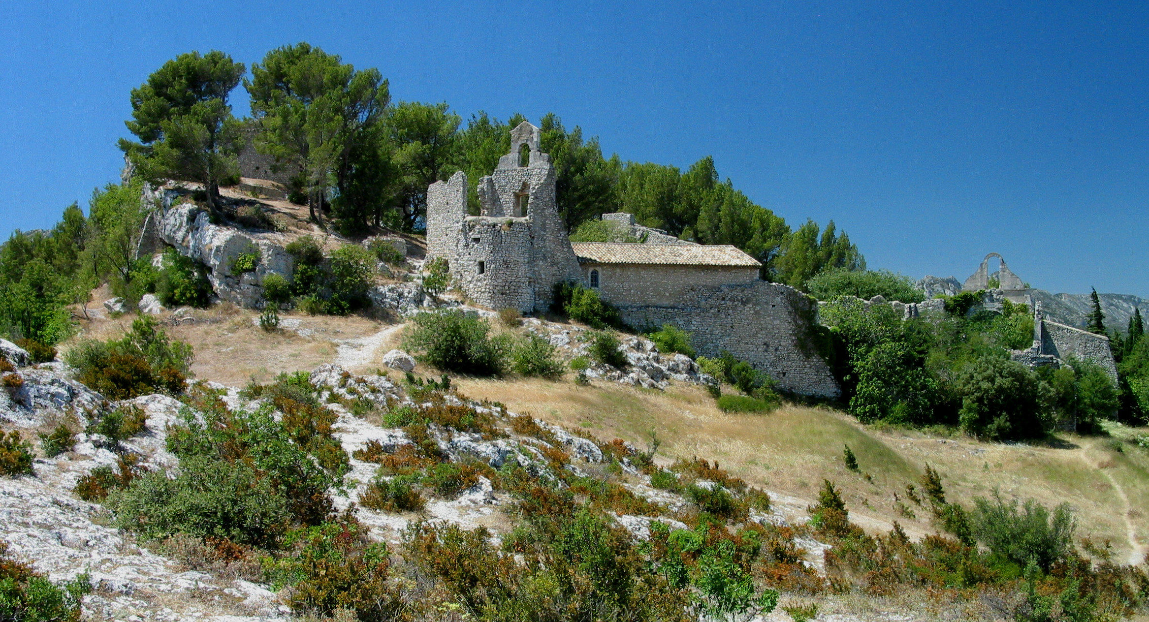 Ruins of old chapel in Eygalières, Provence, France